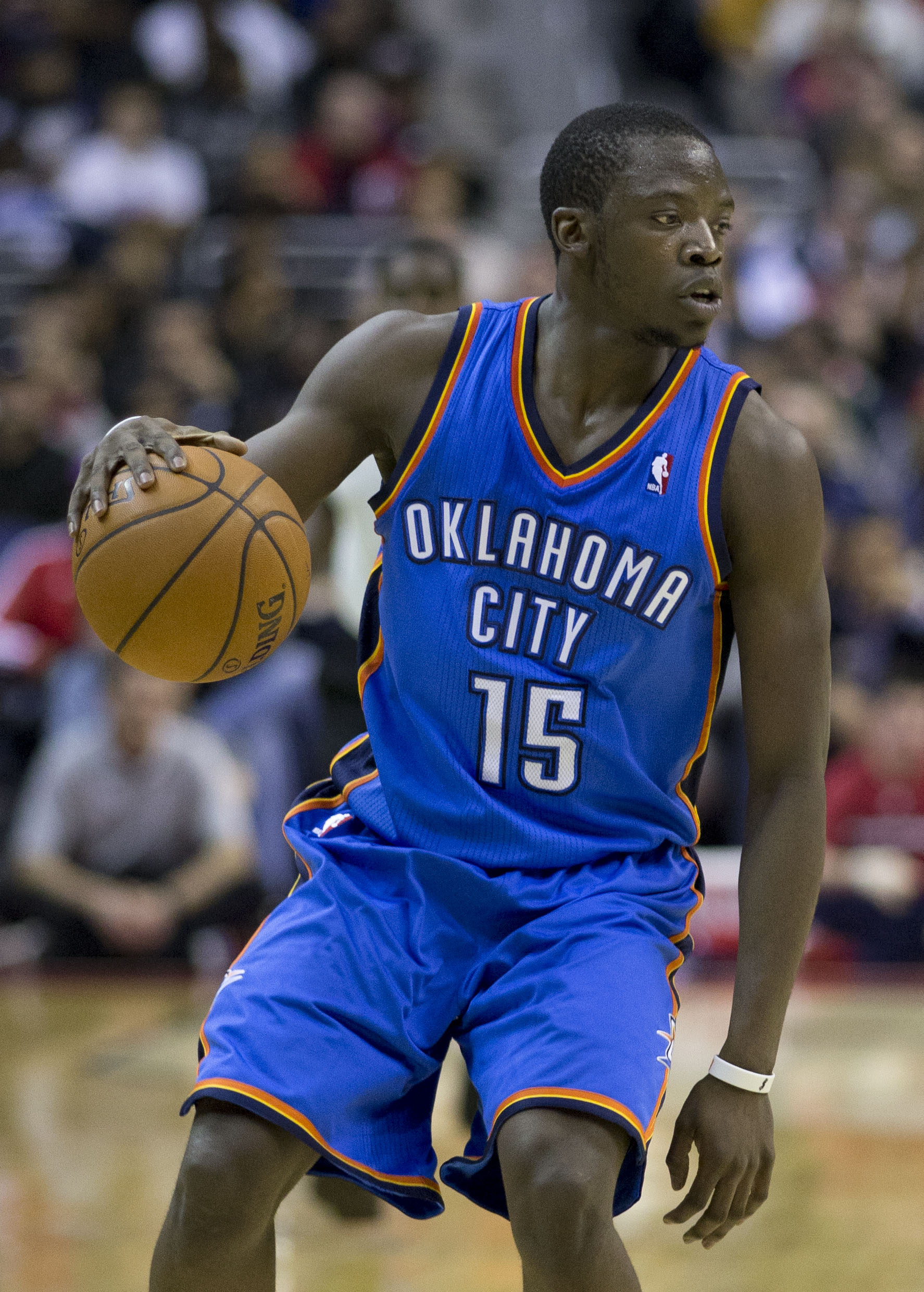 Thunder at Wizards 2/1/14